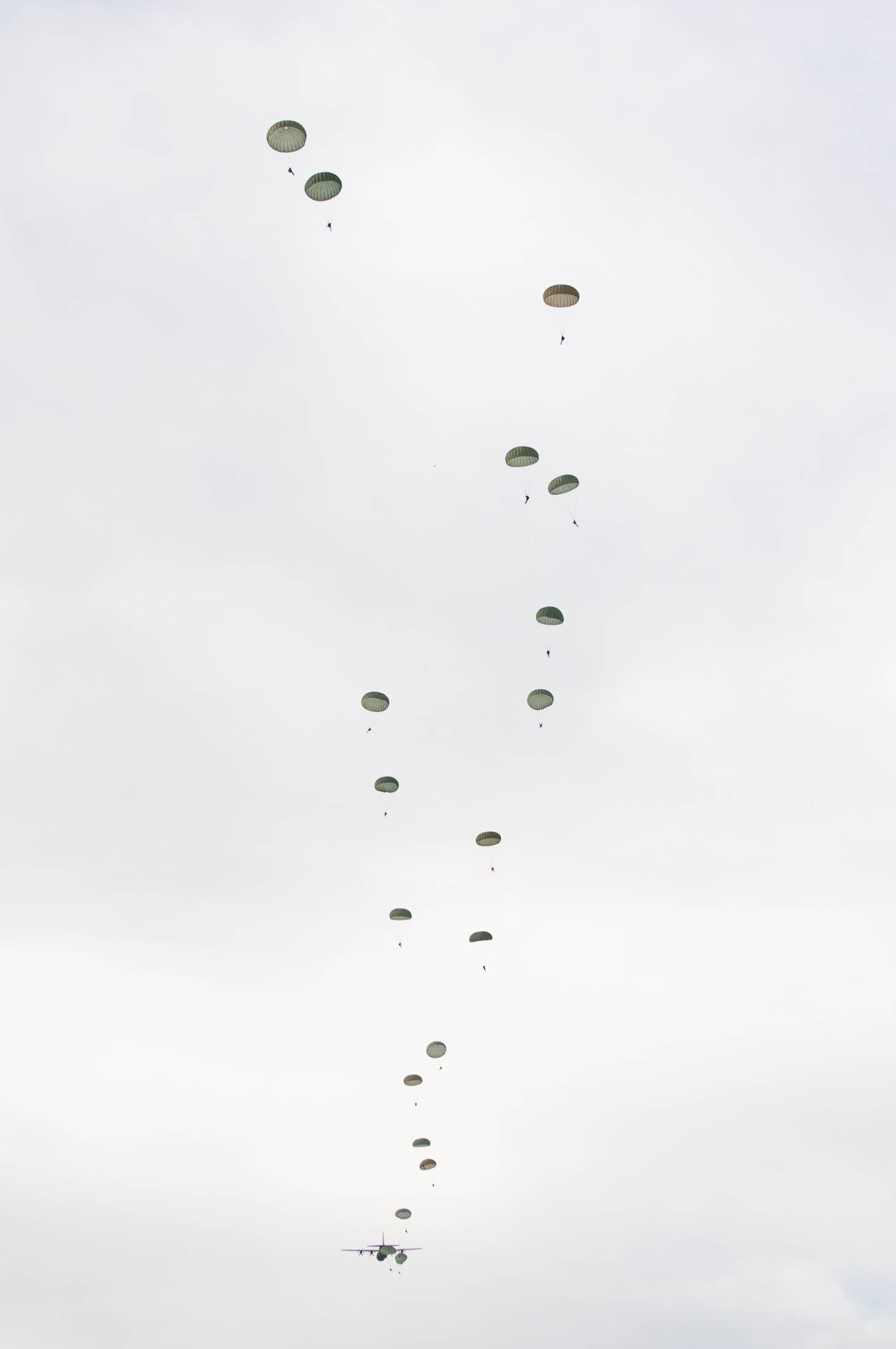 Paratroopers of 2nd Commando Battalion, Belgian Para-Commando Regiment, successfully jump during an airborne operation at Trident Juncture 2015 in Chinchilla, Spain on October 23, 2015 (U.S. Army photo by Capt. Jeku Arce 30th Medical Brigade Public Affairs).